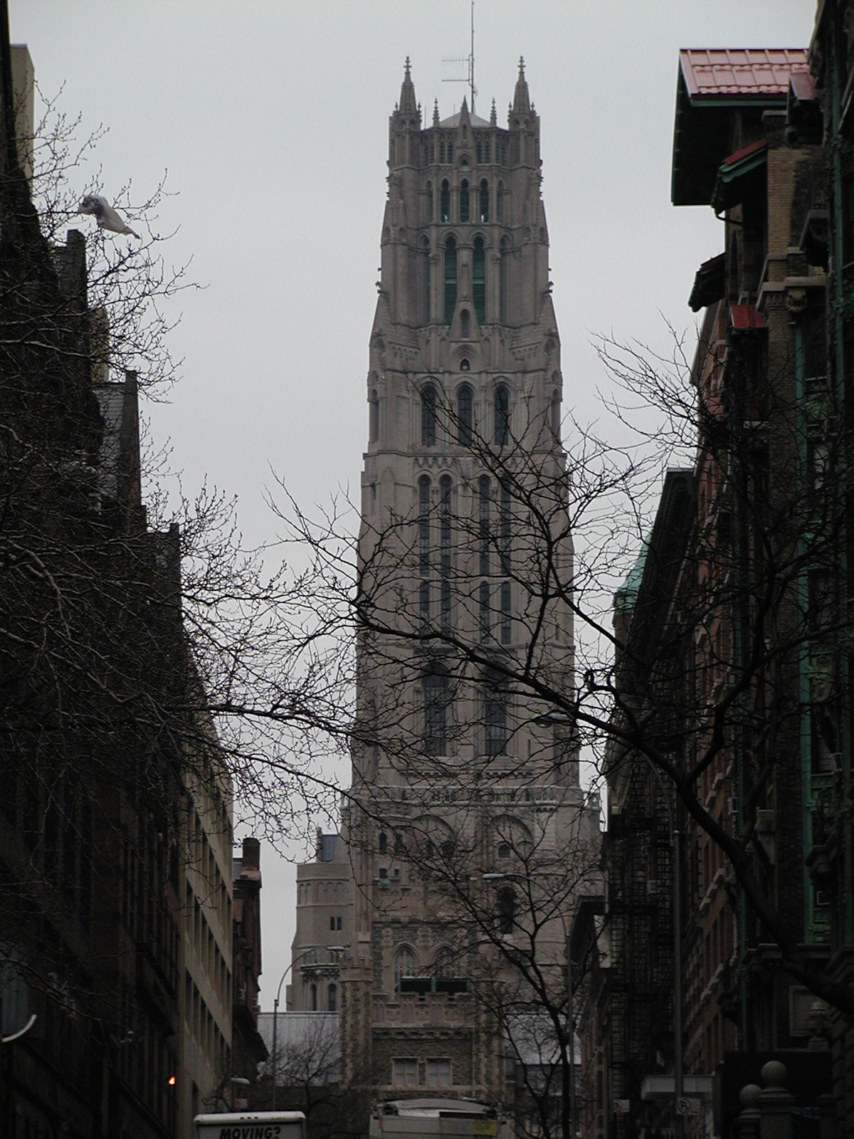 Riverside Church seen from West 121st Street. I (Petri Krohn) took this picture in March 2005. Category:Photographs by User:Petri Krohn